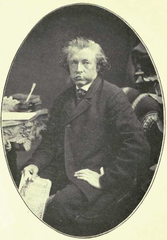 Charles Sangster Title: Canadian singers and their songs : a collection of portraits and autograph poems Creator: Caswell, Edward S. (Edward Samuel), 1861-1938 Date: c1919 Publisher: Toronto : McClelland & Stewart Possible Copyright Status: NOT_IN_COPYRIGHT